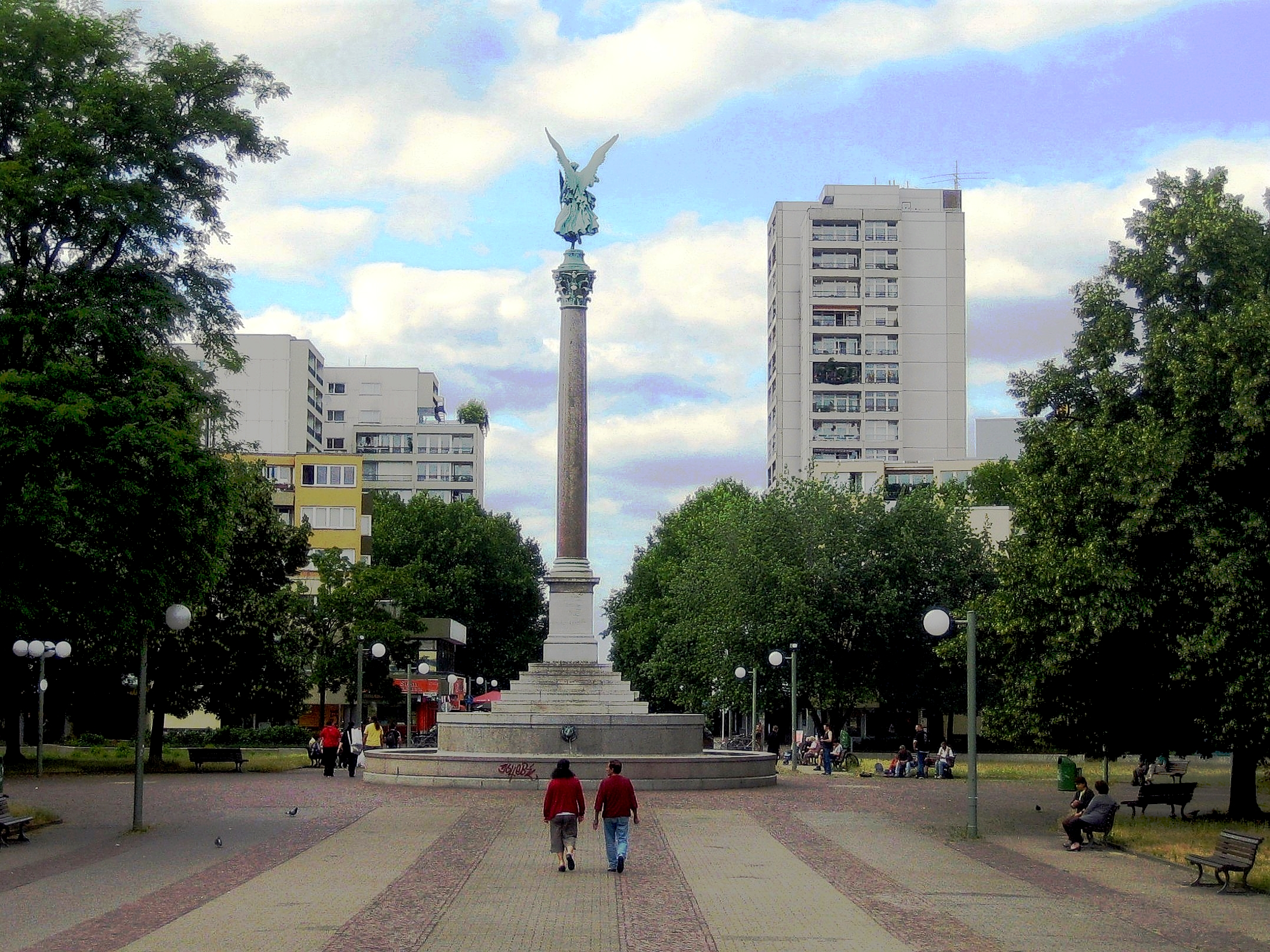 Berlin, Mehringplatz. View to north.